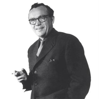 Picture of the Danish architect and furniture designer Finn Juhl